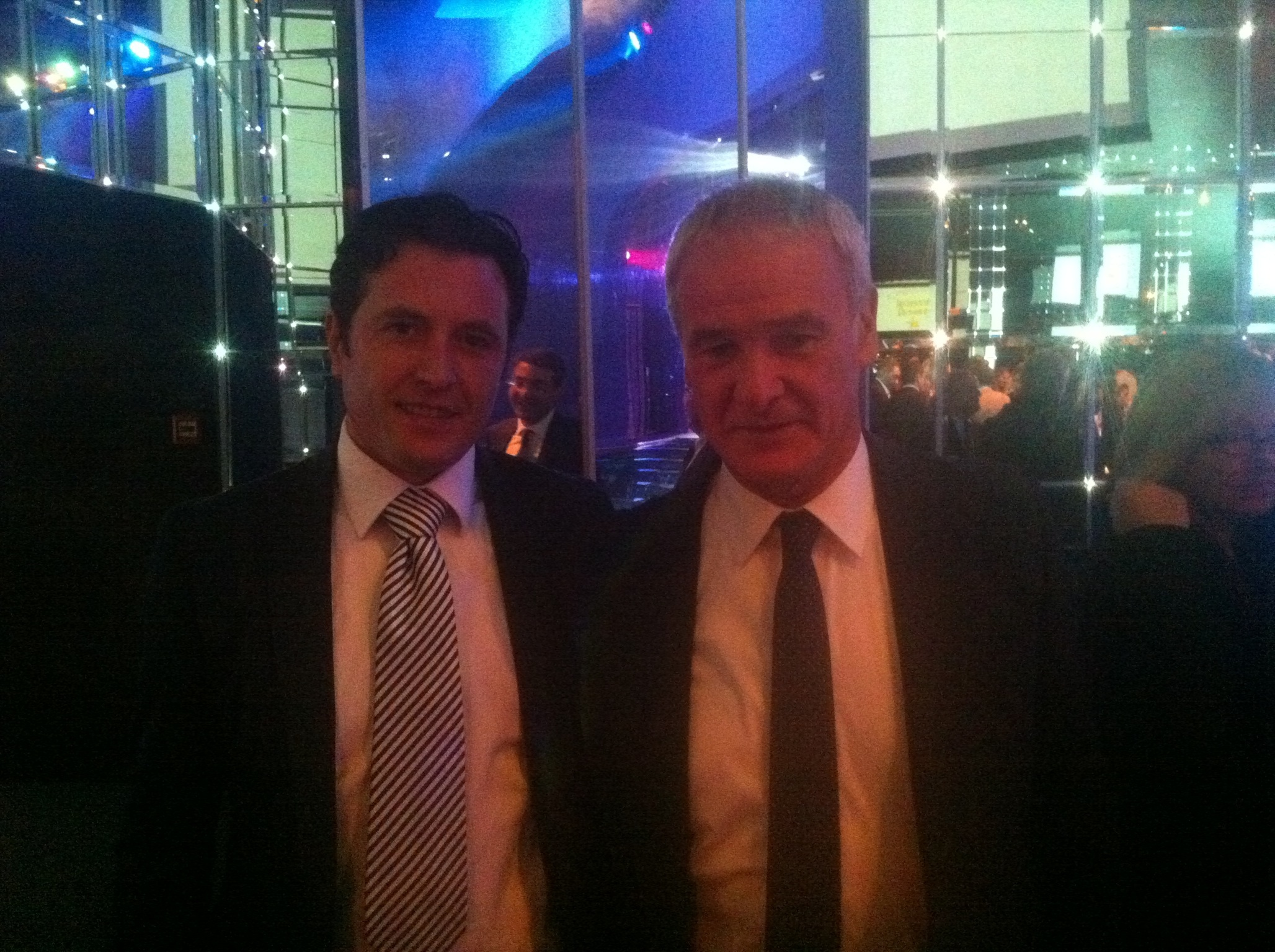 The players'agent Fifa Guido Di Domenico with Mister Ranieri